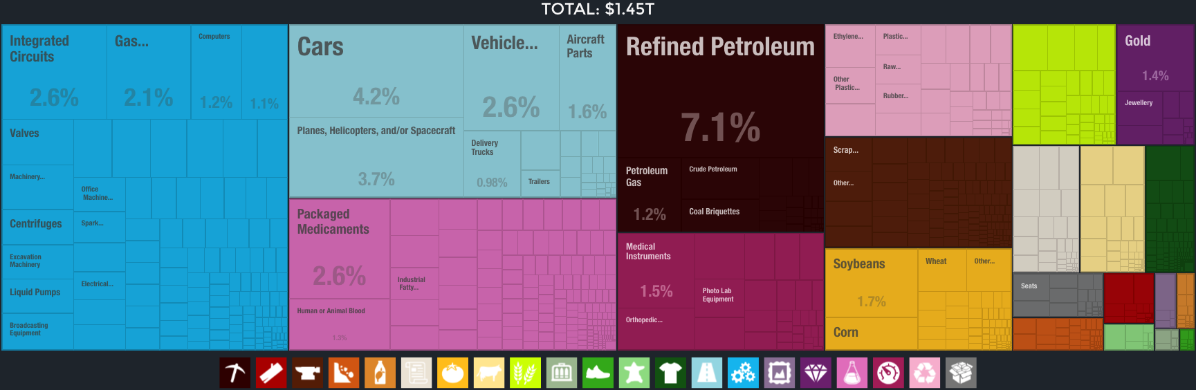 United States exports